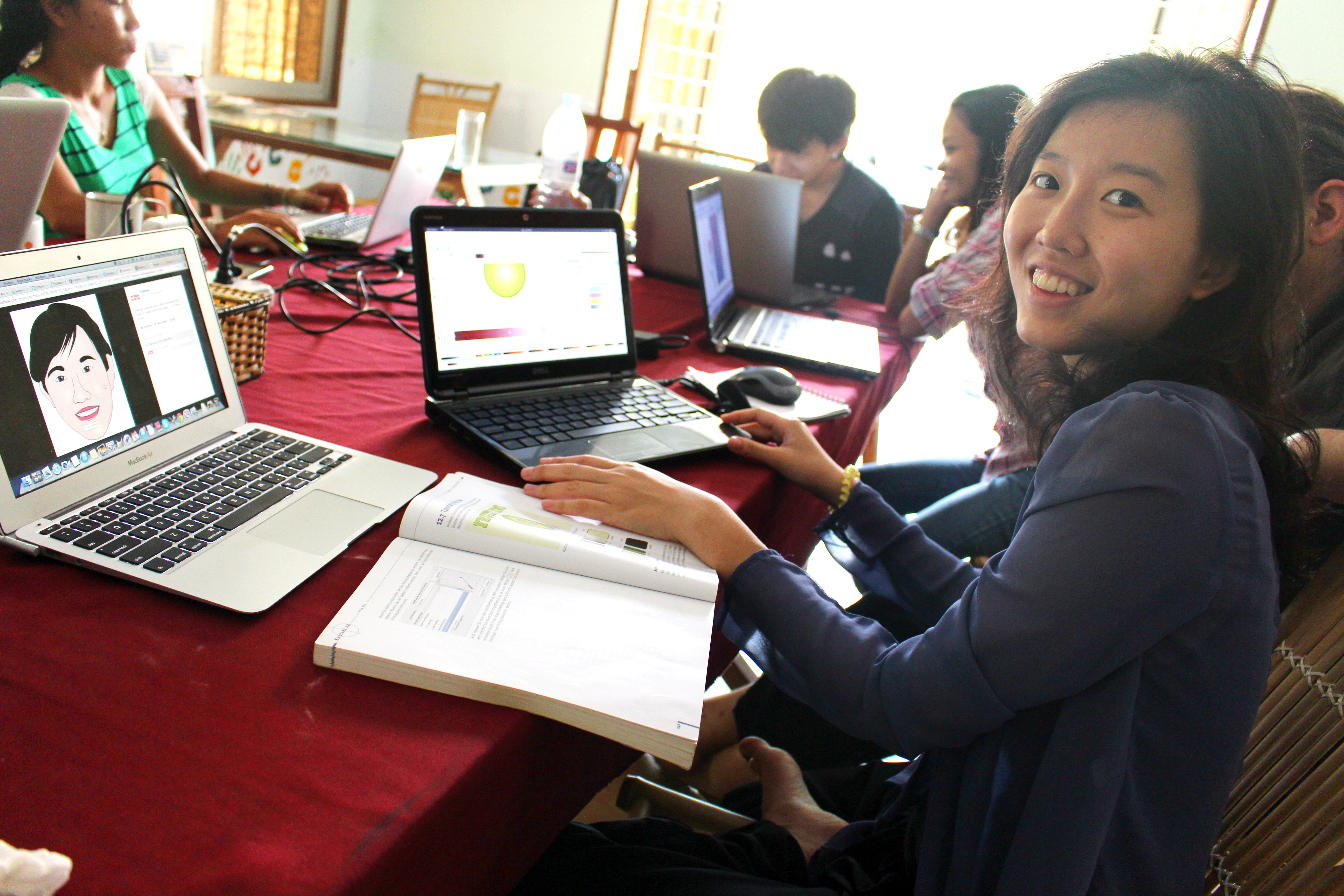 Hong Phuc Dang at FOSSASIA 2014 Inkscape Workshop